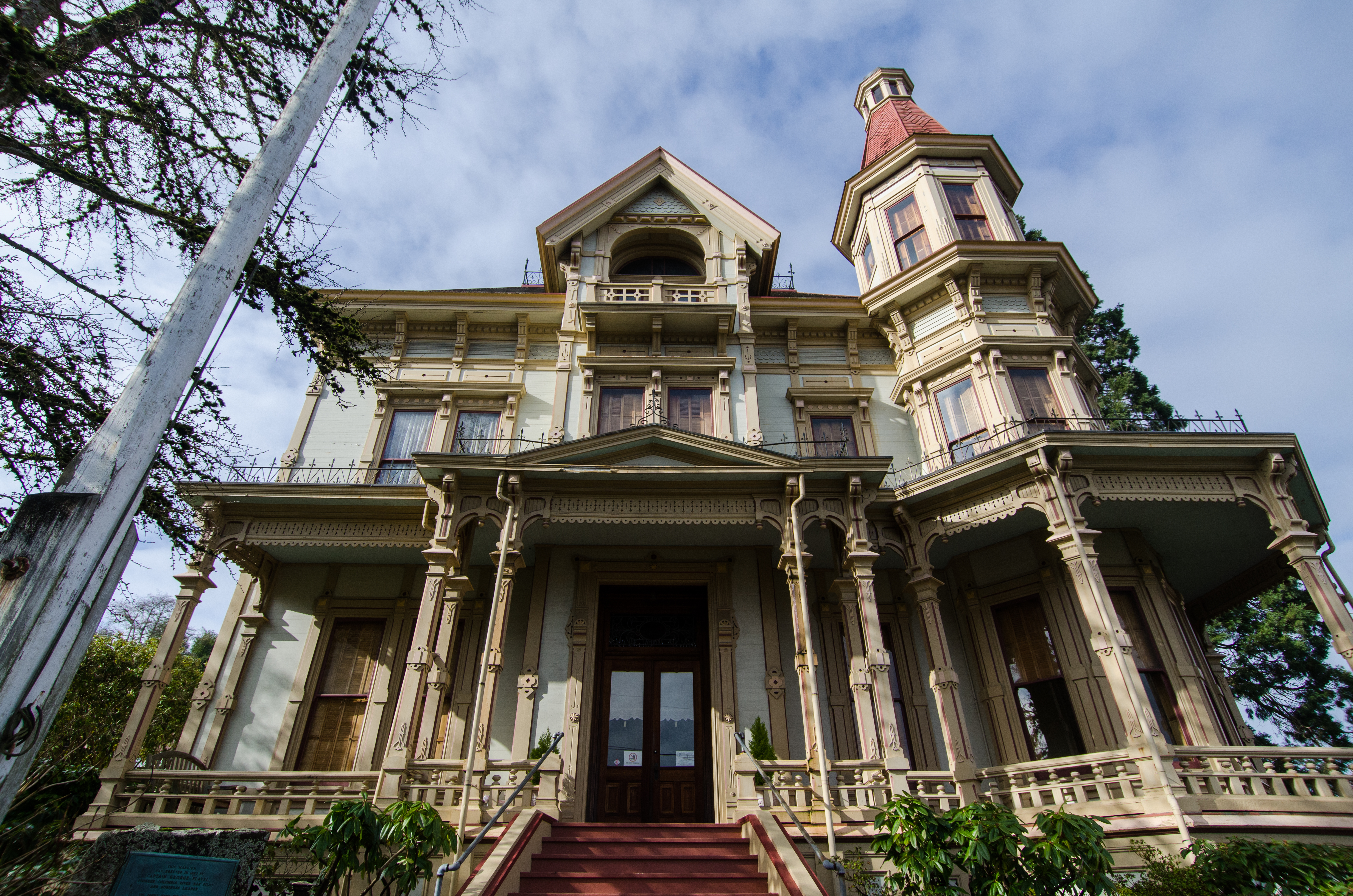 Seen in The Goonies.